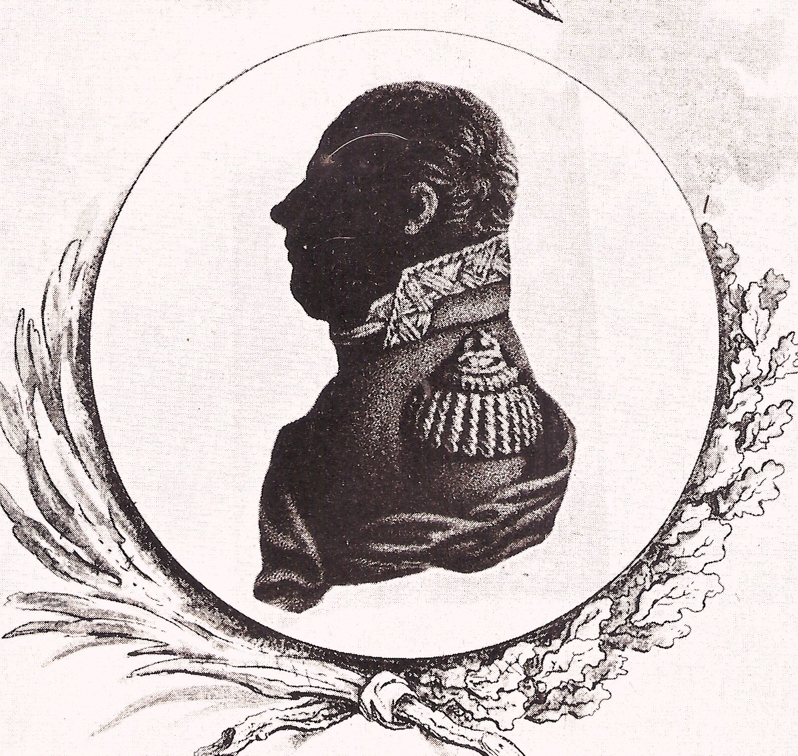 Willem du Pont